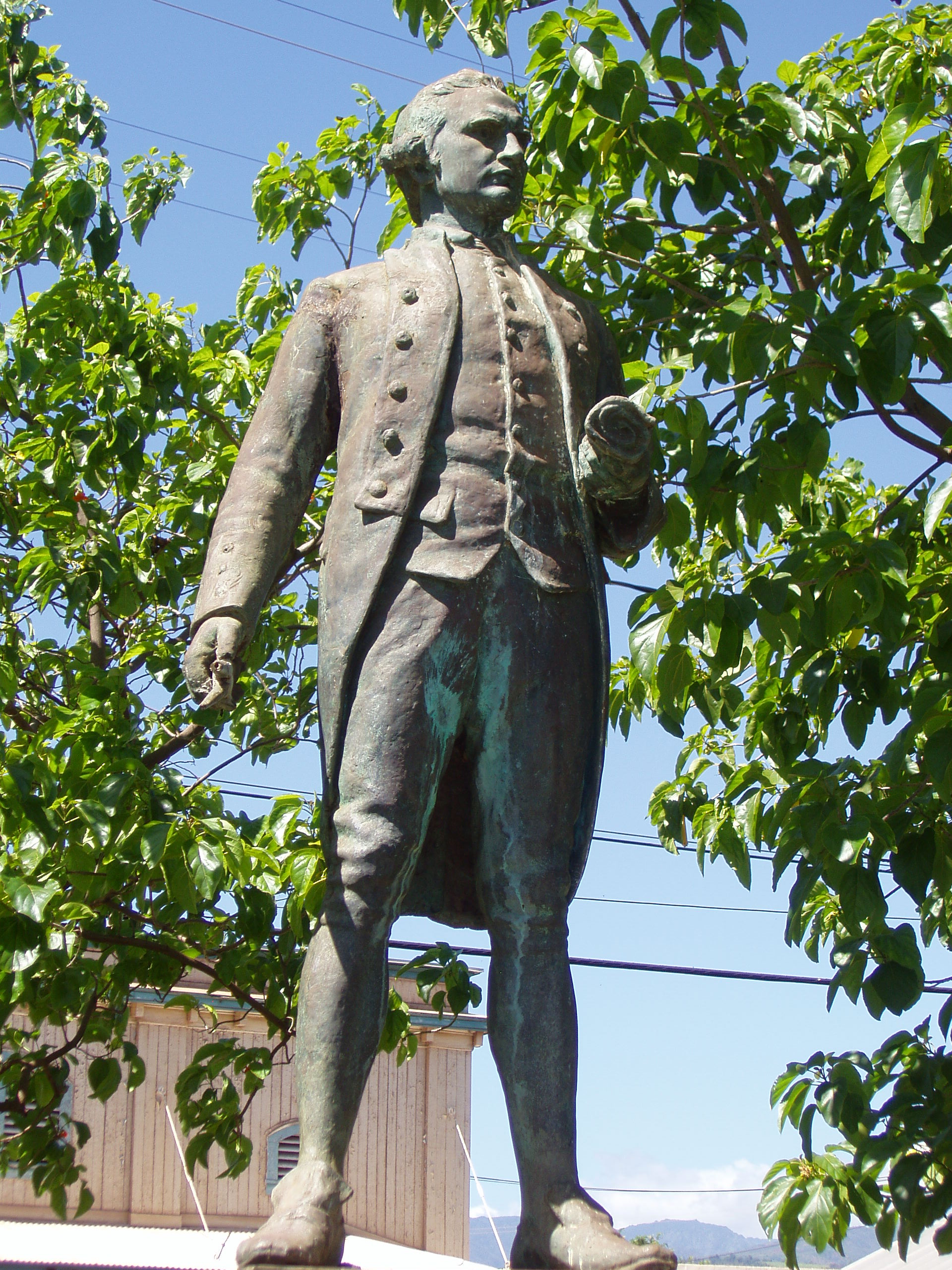 Captain James Cook statue, Waimea, Kauai, Hawaii. According to the legend on its base, this statue is a replica of the original in Whitby, England, made by Sir John Tweed. Captain Cook's dates are 1728-1779.